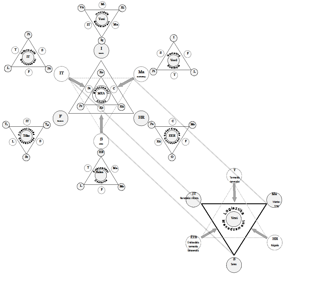 The spatial representation of I-VMS Model. Which can be take moree effective the management.